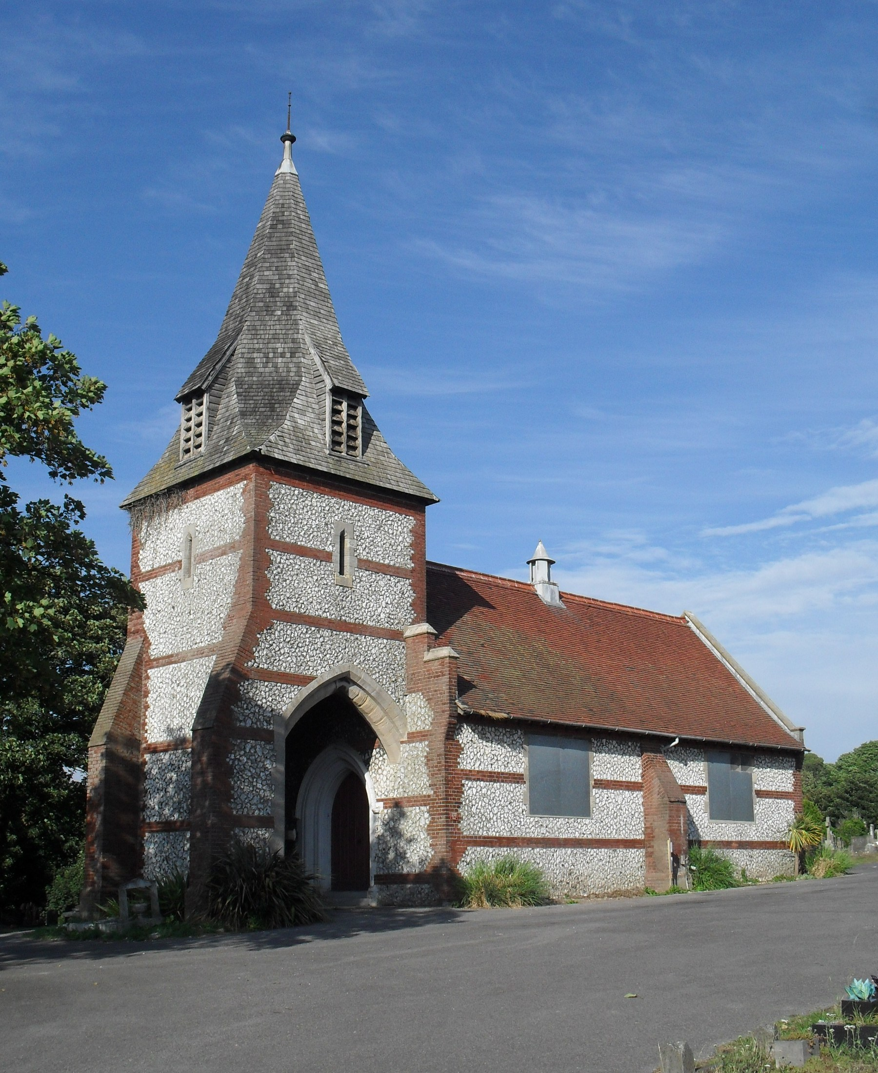 Mortuary chapel at Brighton and Preston Cemetery, Hartington Road, Brighton, City of Brighton and Hove, England. The cemetery opened in 1886.